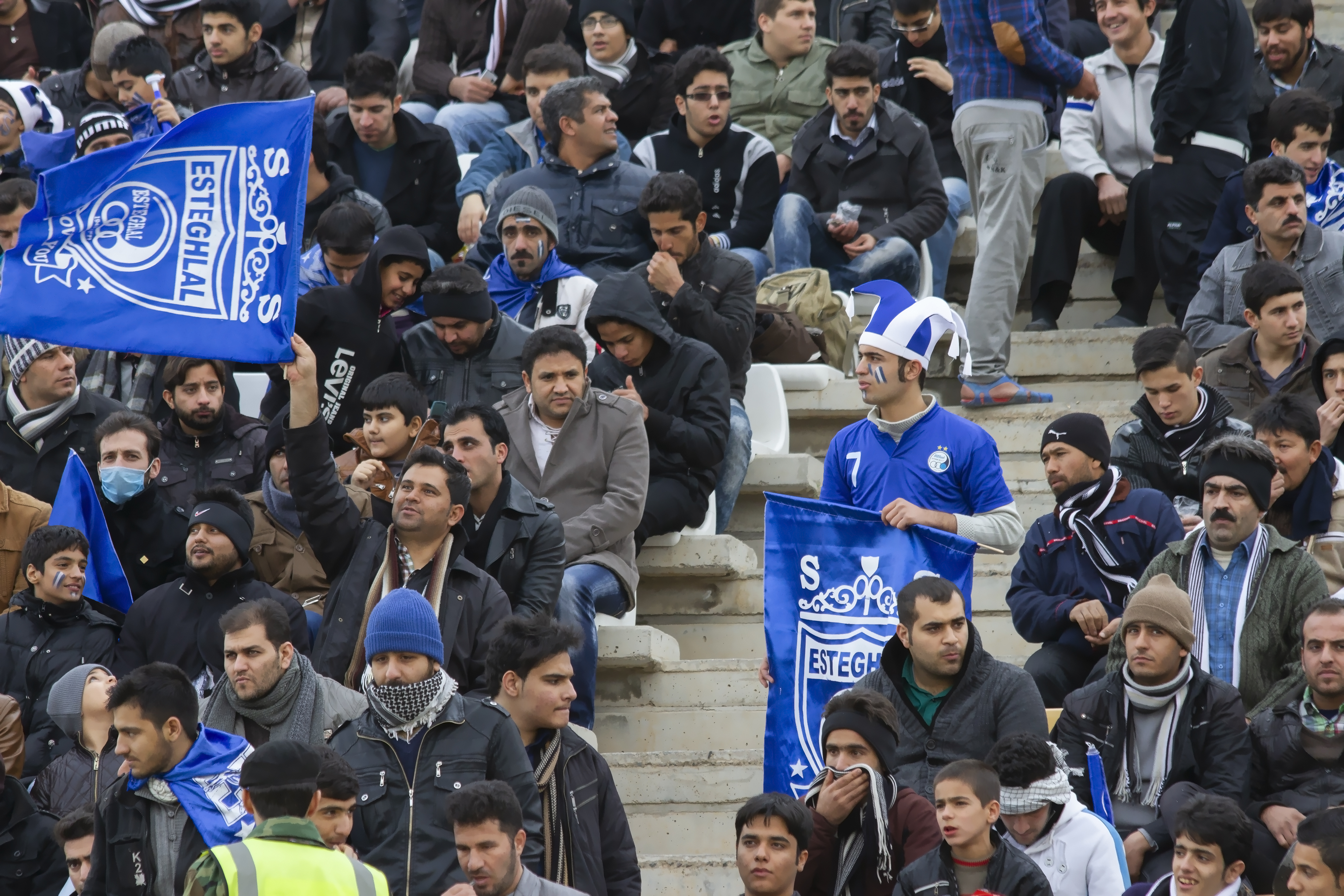 Esteghlal Football Club previously known as Docharkheh Savaran Club and later on Taj Football Club is an Iranian professional football club based in Tehran and founded on 26 September 1945.